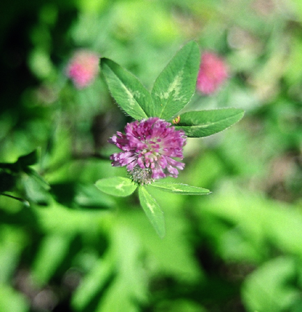 Also known as red clover, alfalfa (trifolium pratense) is an introduced species to North America. It provides an excellent source of nectar for honey producers, and is also a nutritious feed for cattle. In its early growth stage, it is also a tasty and tender addition to a "wild salad", though its use later in the season is discouraged; as the plant ages, it begins to produce toxic components. Alfalfa blooms from May through August, and its red-purple blossoms and leaf chevrons are highly visible and readily identifiable. Ø2004 D. Windrim Captioned As { }